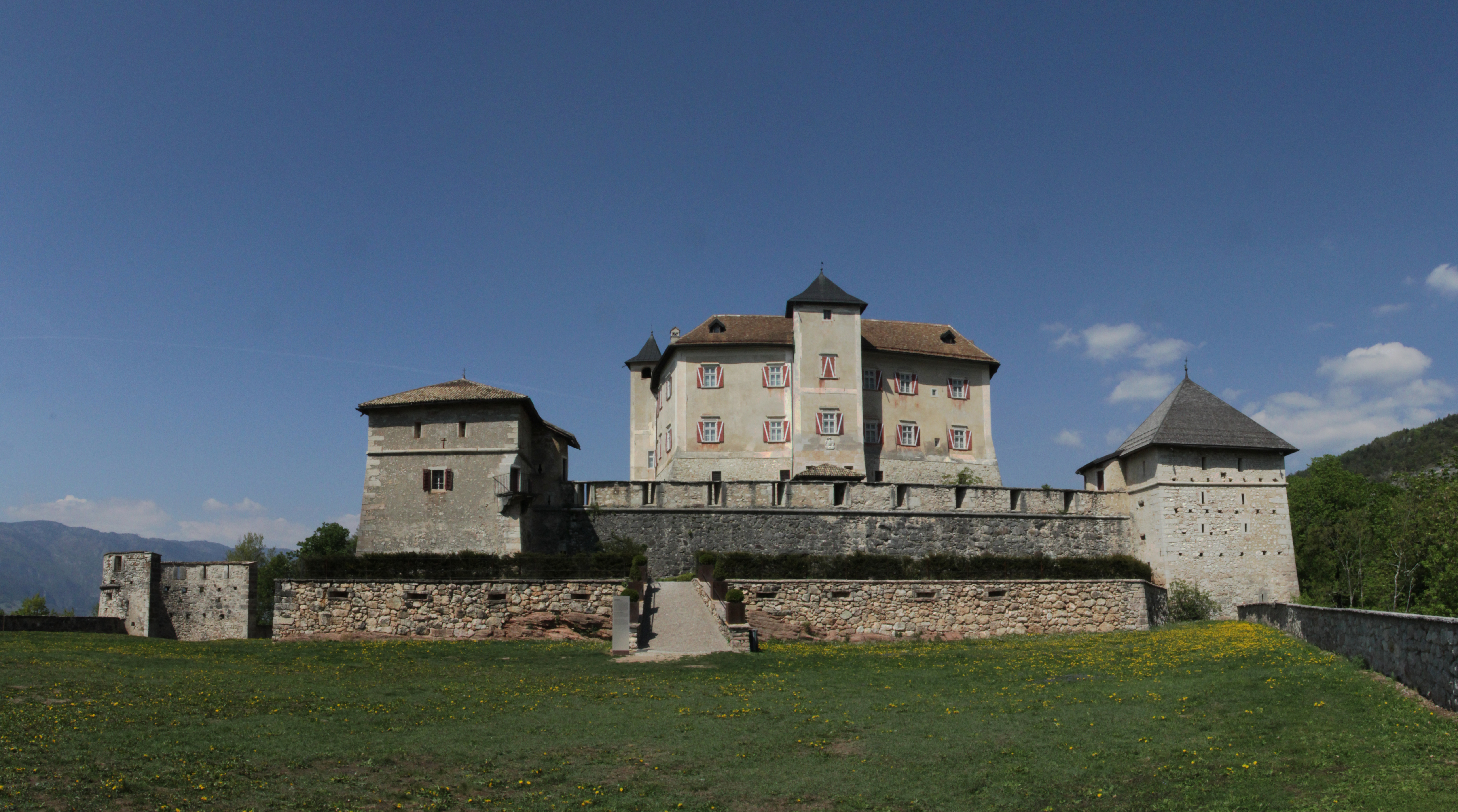 Ton (Italy): view of Castel Thun from the southern garden.